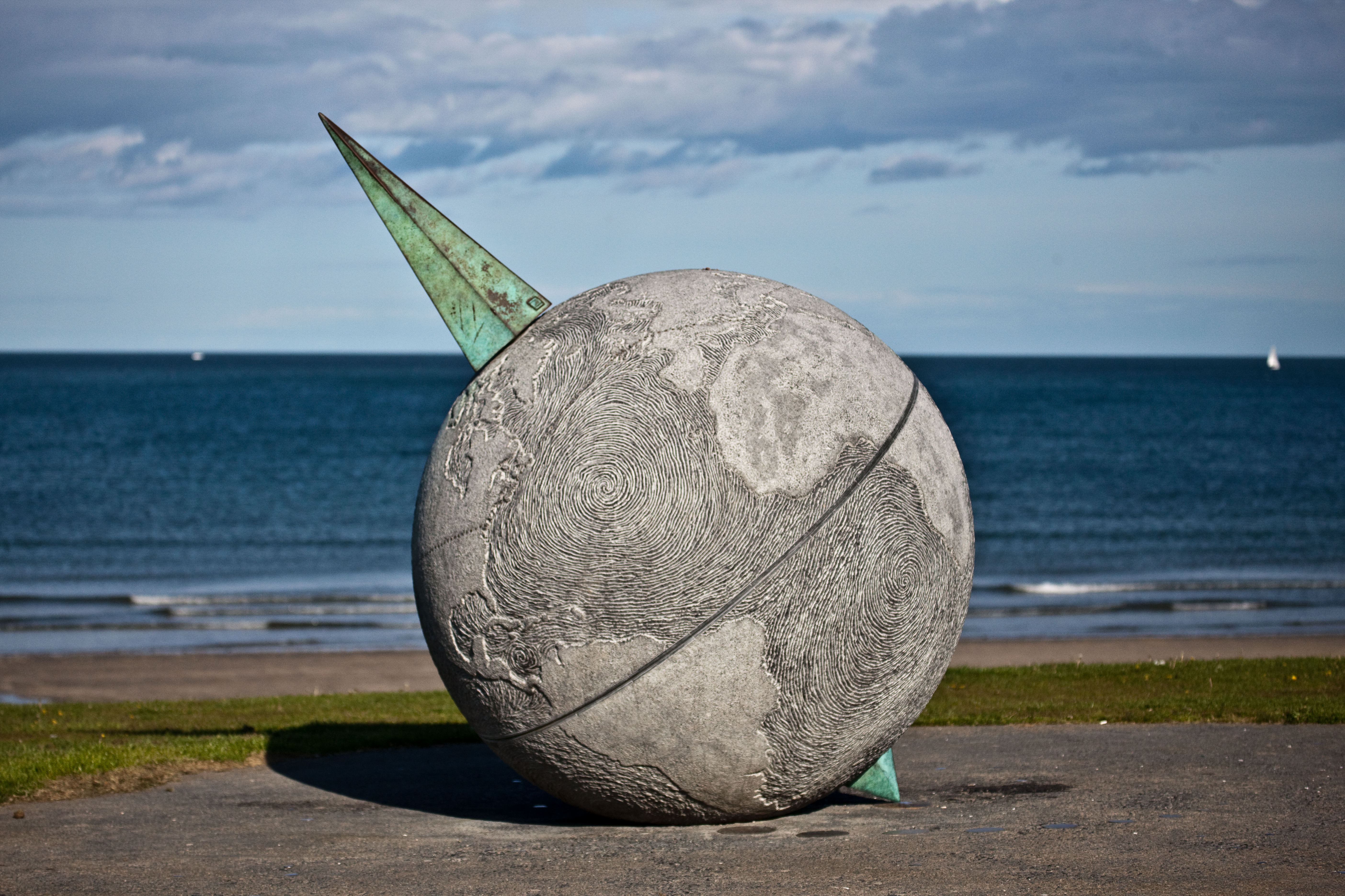 "Southern Cross" memorial at Portmarmock, County Dublin, Ireland, commemorates the first successful East-West transatlantic flight made by Australian aviator Sir Charles Kingsford Smith in his plane 'The Southern Cross' (VH-USU) which took off from the Portmarnock beach on 24 July 1930 and landed in Harbour Grace, Newfoundland. Kingsford Smith was accompanied by co-pilot, Evert van Dijk; navigator, Capt. P.J. (Paddy) Saul; wireless operator, John Stagnate.